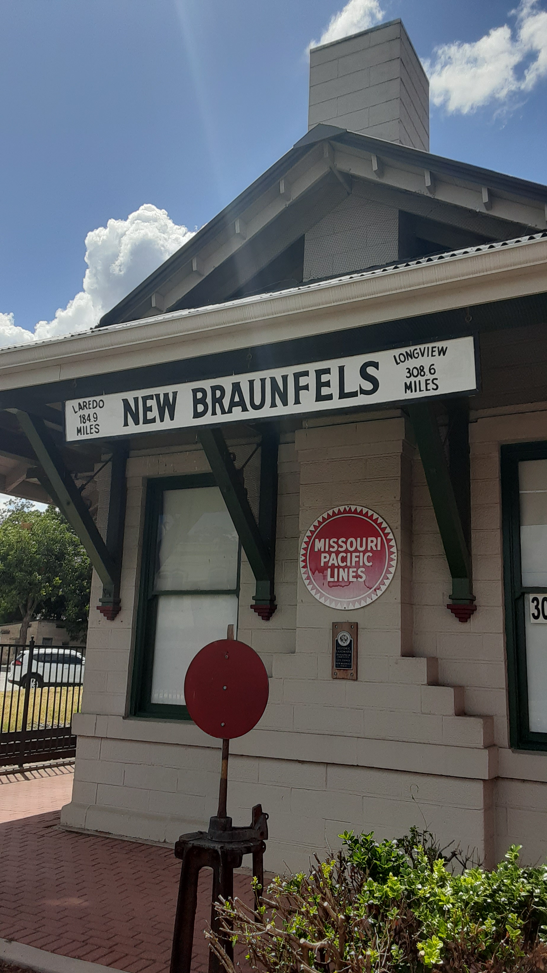 New Braunfels station on the MoPac (Missouri and Pacific) Railway line in New Braunfels, TX